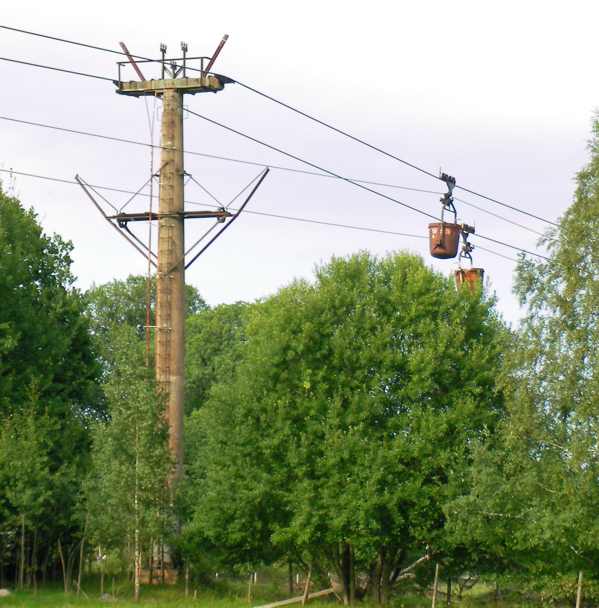 Trestle and cars in forest area near the Forsby limestone quarry.